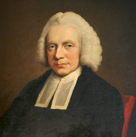 Rev Dr Edward Pickard (1714-78) who founded ....The earliest link in the school's history goes back to the Orphan Working School which was founded in 1758 by fourtten men meeting in an Inn[1] led by the Rev. Dr. Edward Pickard.